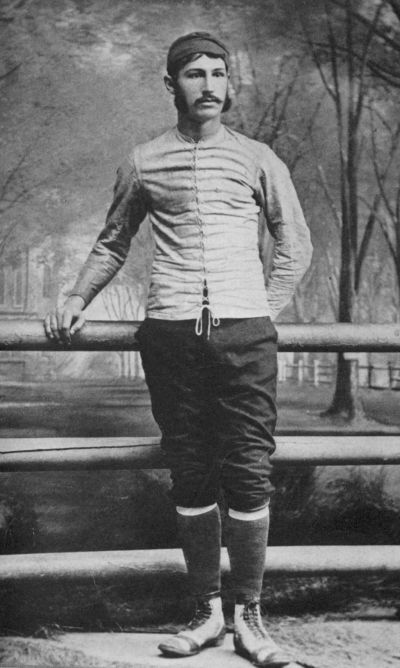 Portrait of Walter Camp, an American football player, coach, and sports writer known as the "Father of American Football". Camp was pictured here as Yale's captain.